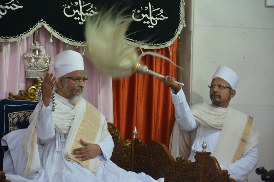 In the Majlis Mukaasir saheb doing Chamar-nawaazi to Aqaa Maulaa